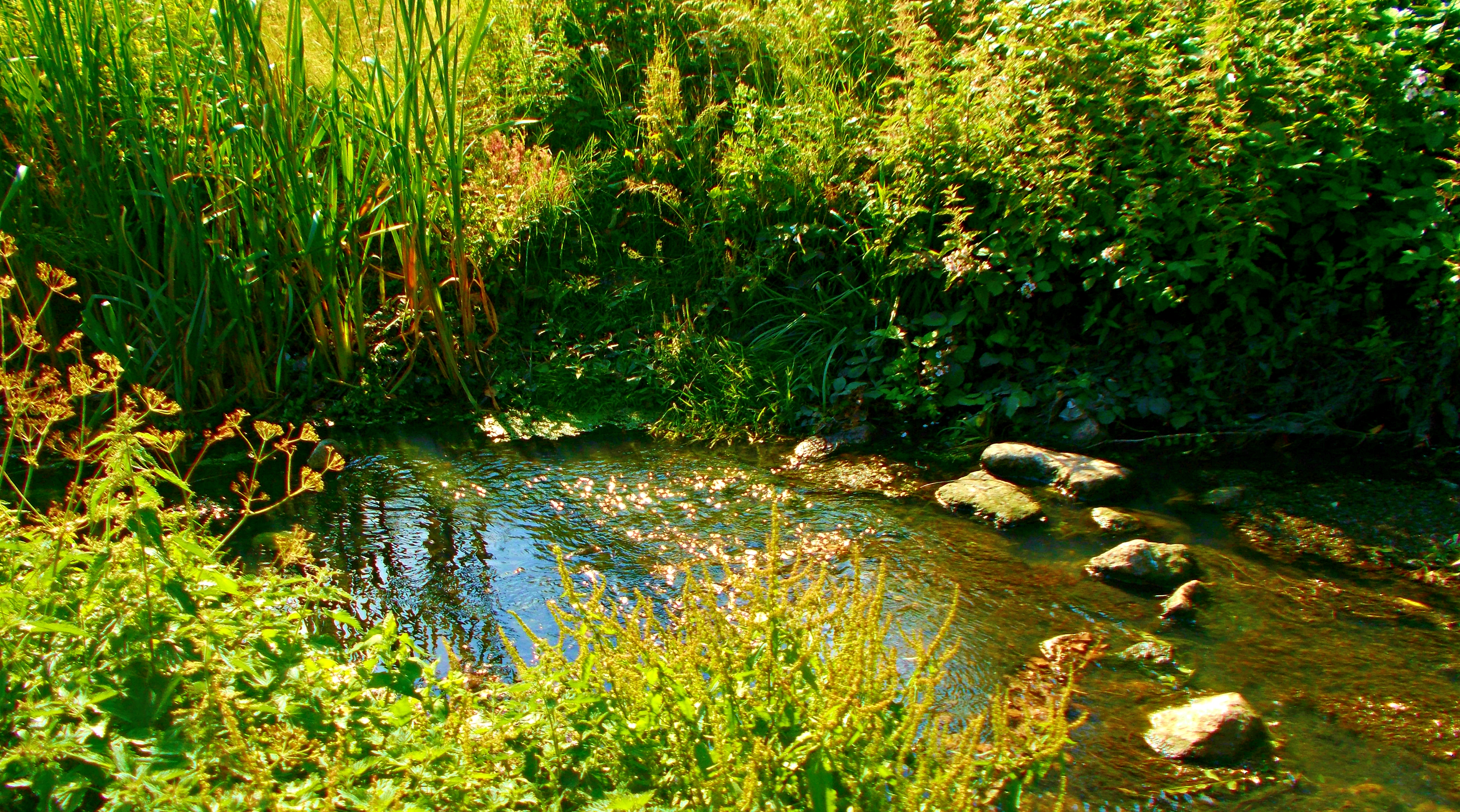 Stream running through a small park in West Sutton